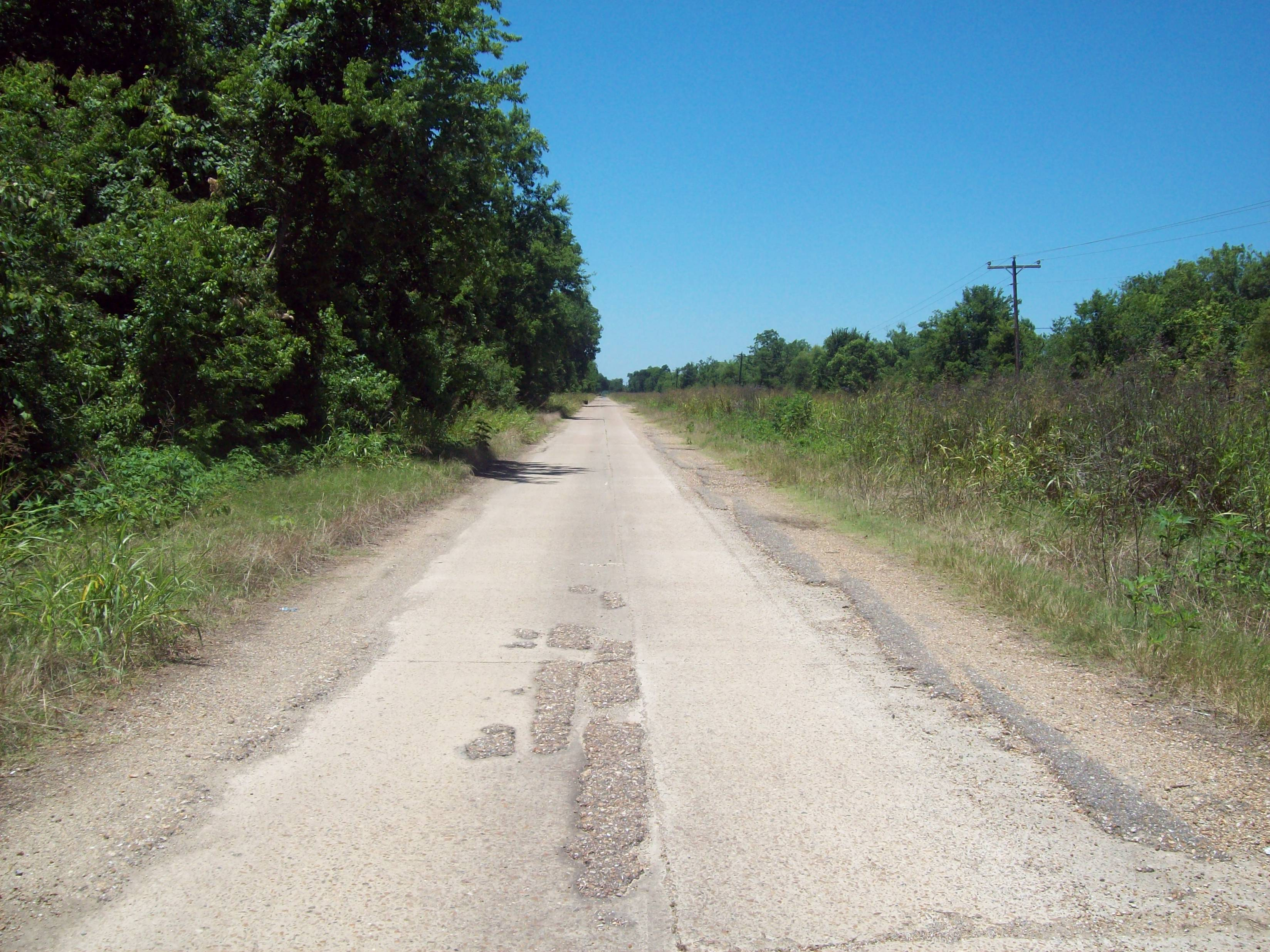 Old US 190 alignment showing concrete